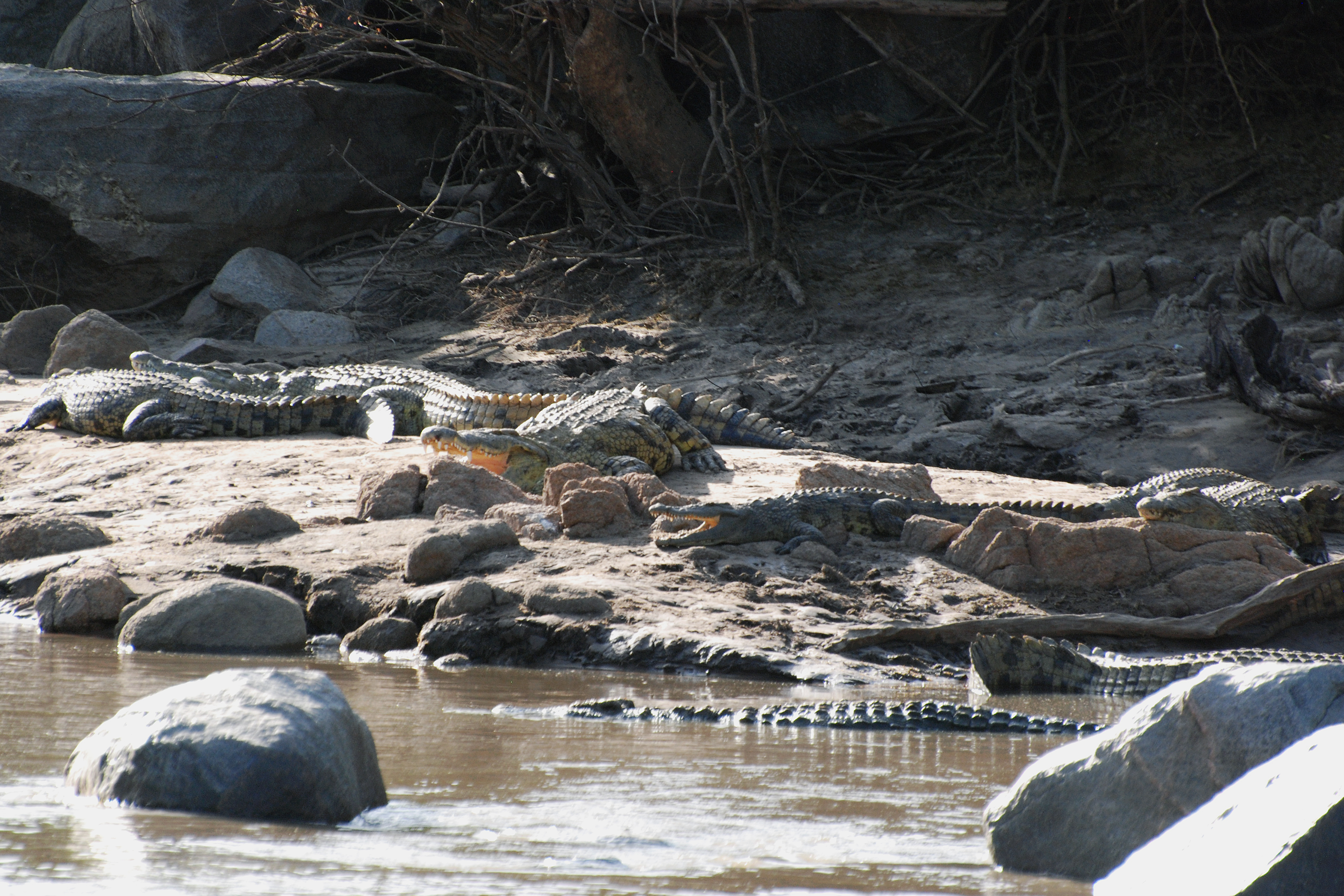 The Nile crocodile or common crocodile (Crocodylus niloticus) is an African crocodile